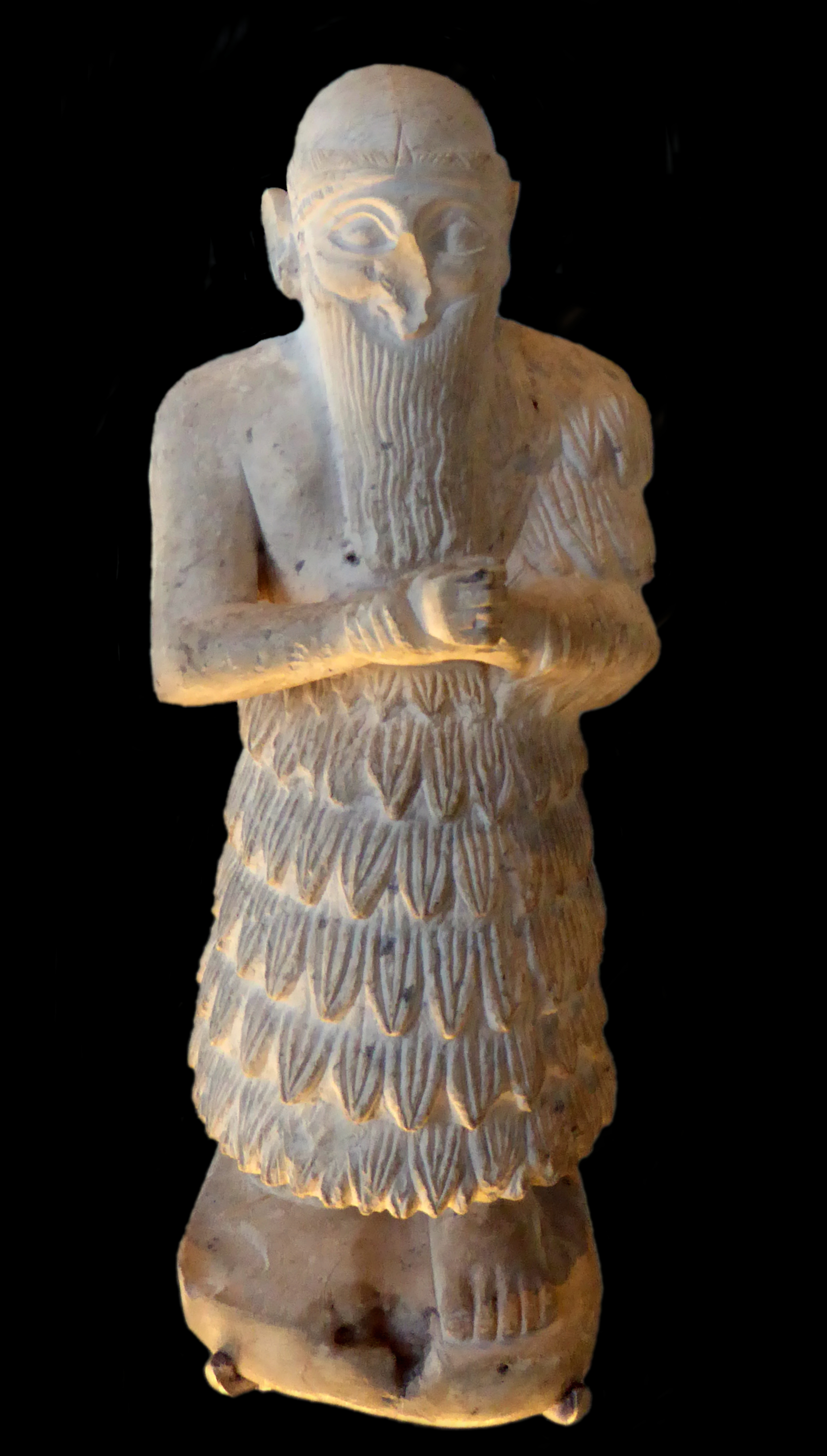 Ishqi-Mari (dark background)